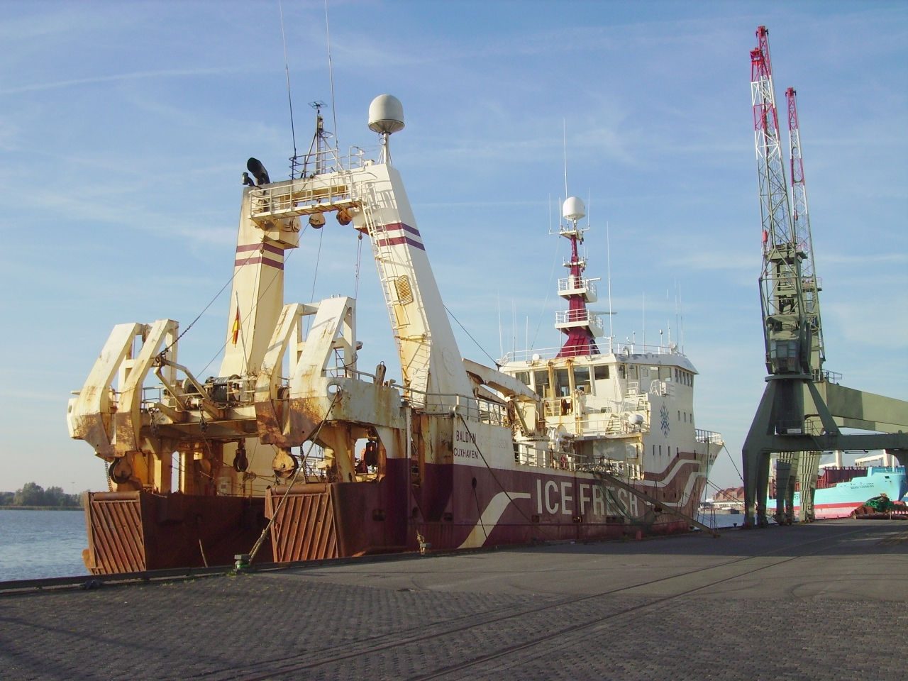 The trawler "Baldvin" of DFFU